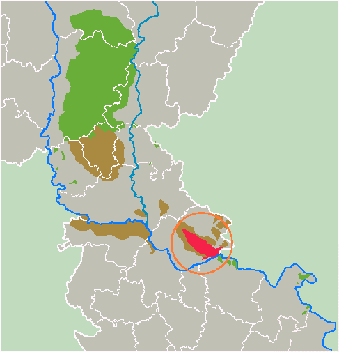 LEGEND: Green - Sands, Red - Selected Sand, Brown - Loess. Српски (ћирилица): Мапа је због потребе приказивања садржаја мала и није у потпуности прецизна. Употребљени извори су педолошке карте и мапе заштићених подручја Завода за заштиту природе, као и рад др Млађена Јовановића Пешчаре у Србији 2014, Природно-математички факултет Универзитета у Новом Саду.